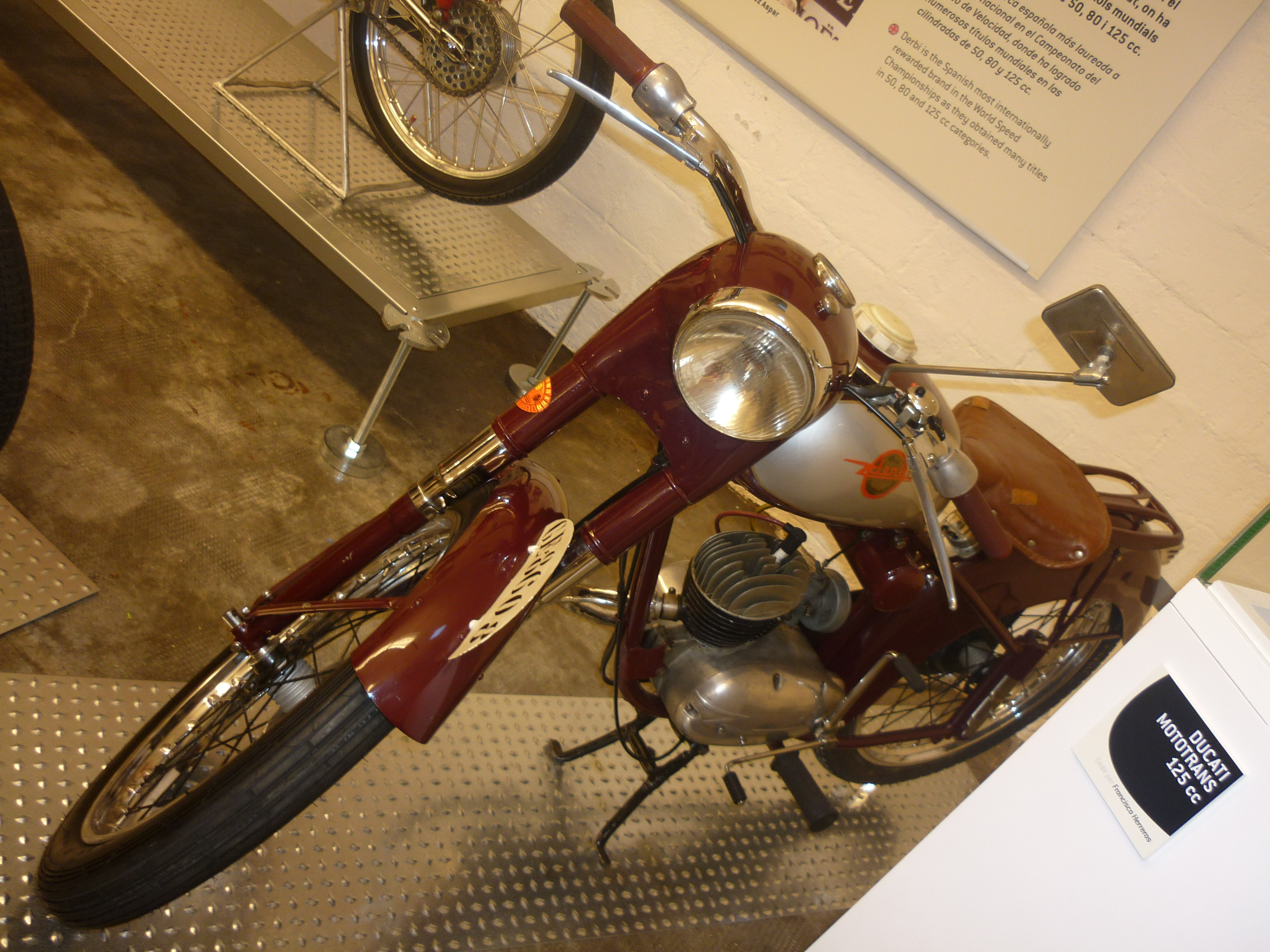 Derbi 95 95cc (1954). Museu de la Moto de Barcelona (Catalonia).